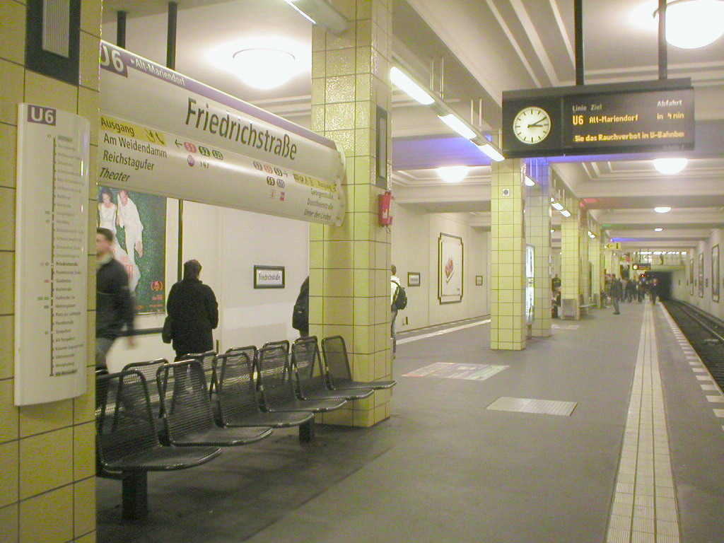 The Berlin U-Bahn station Friedrichstraße (line U6)